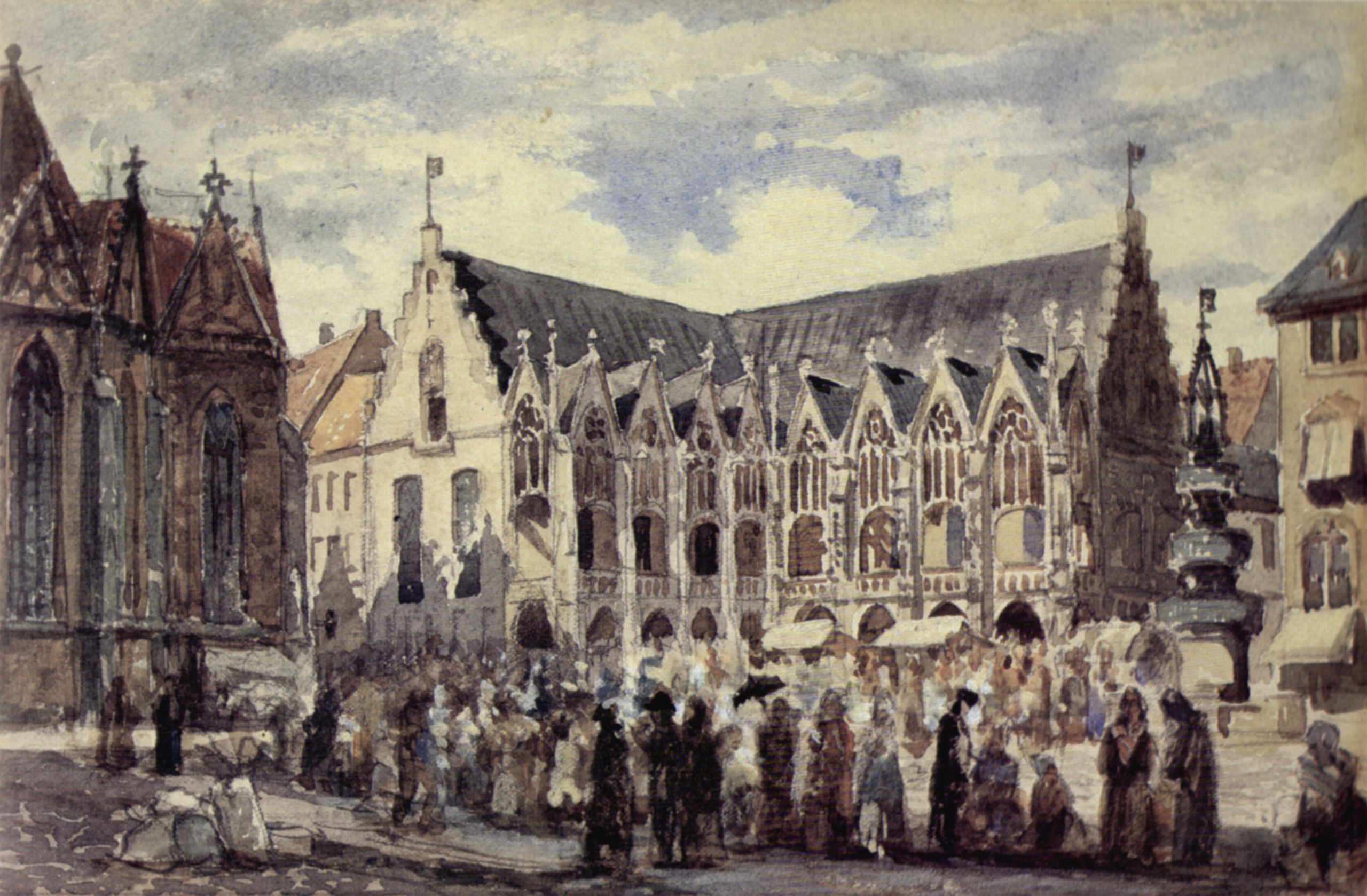 Altstadtmarkt, urban square in Braunschweig, Lower Saxony, Germany